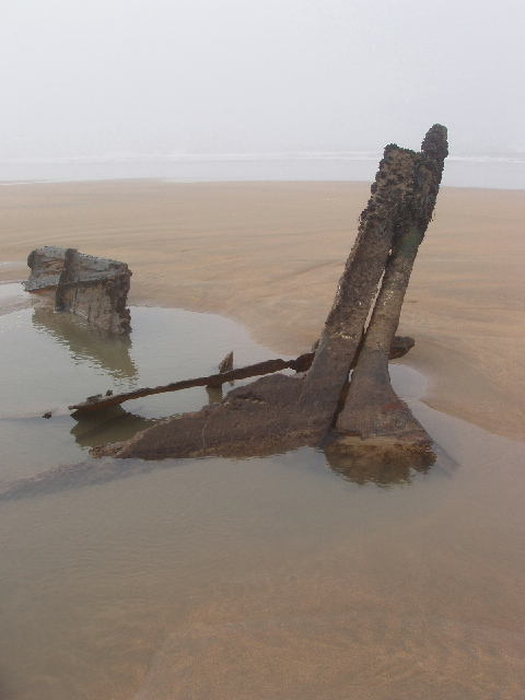 Shipwreck remains at Menachurch Point Walking down the beach in the mist we suddenly came across these rusting iron remains of a ship. As we walked on we saw the prop shaft, then the boiler, laid out along the sand. Remains of the Portuguese steamship "Belem" (formerly the German SS Rhodos) 1,925 ton, stranded in thick fog at Northcott Mouth, Bude, on 20th November 1917